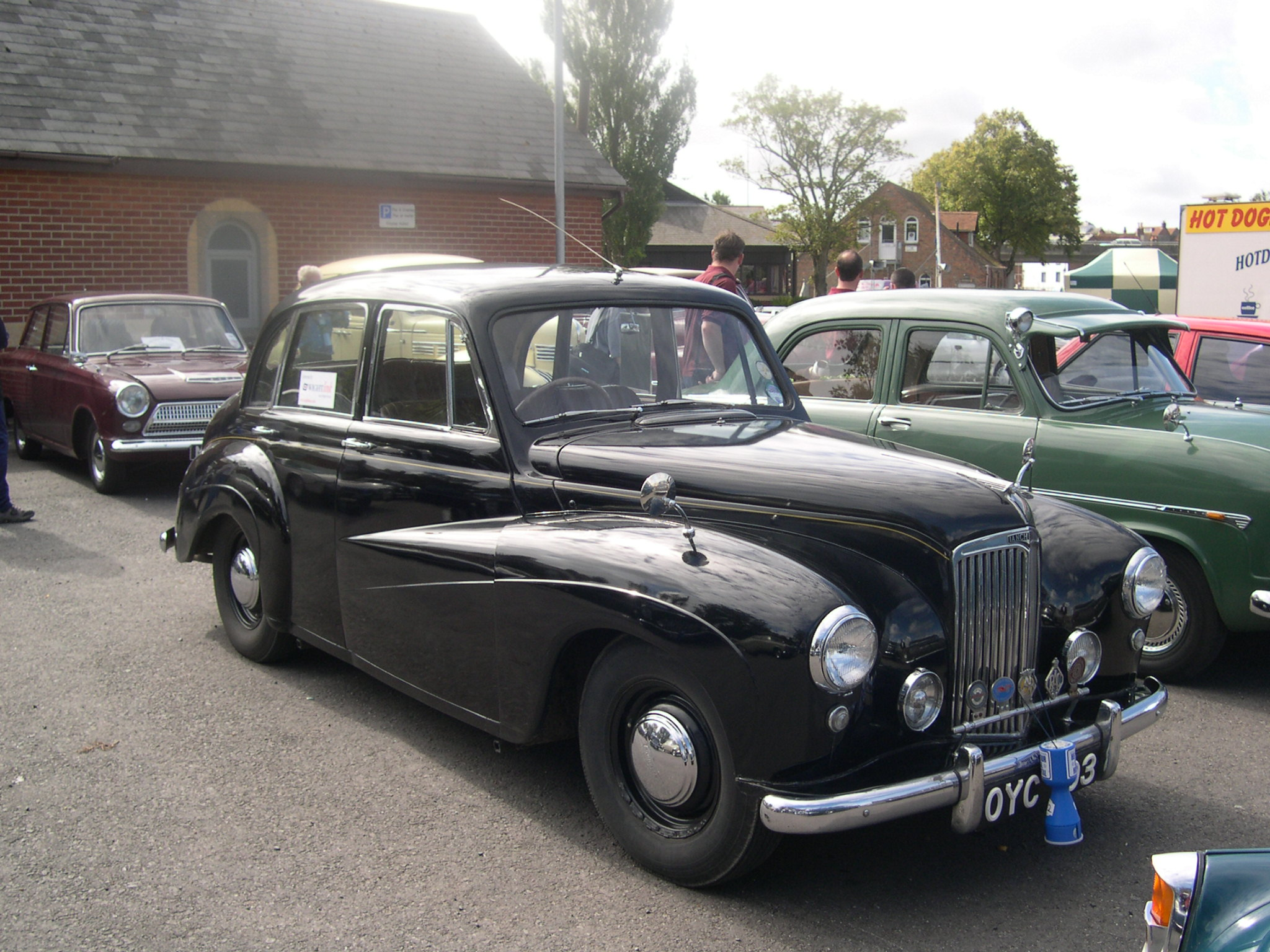 1953 Lanchester Leda Newport Isle of Wight Classic Cars